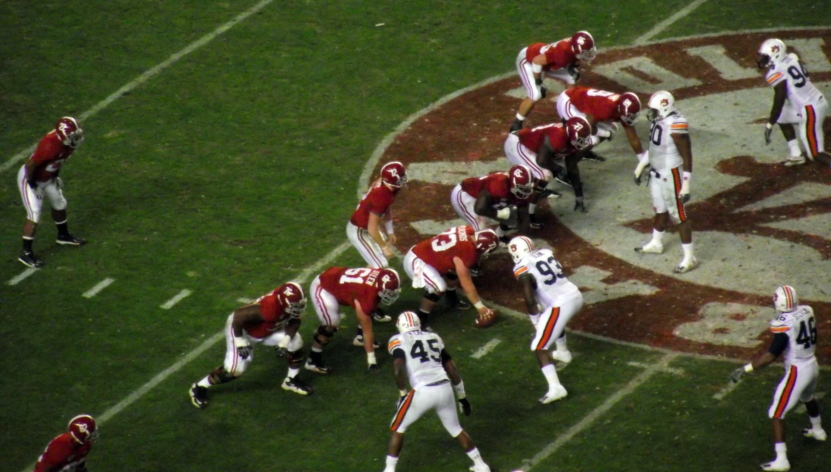 Alabama on offense during the annual Iron Bowl against rival Auburn University.